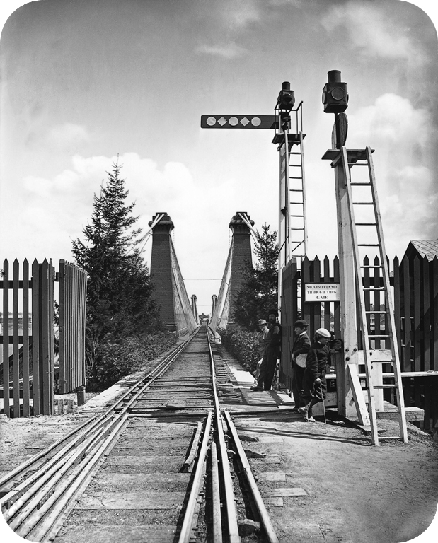 Photo of the upper deck of John Roebling's Niagara Railway Suspension Bridge from the Canadian side